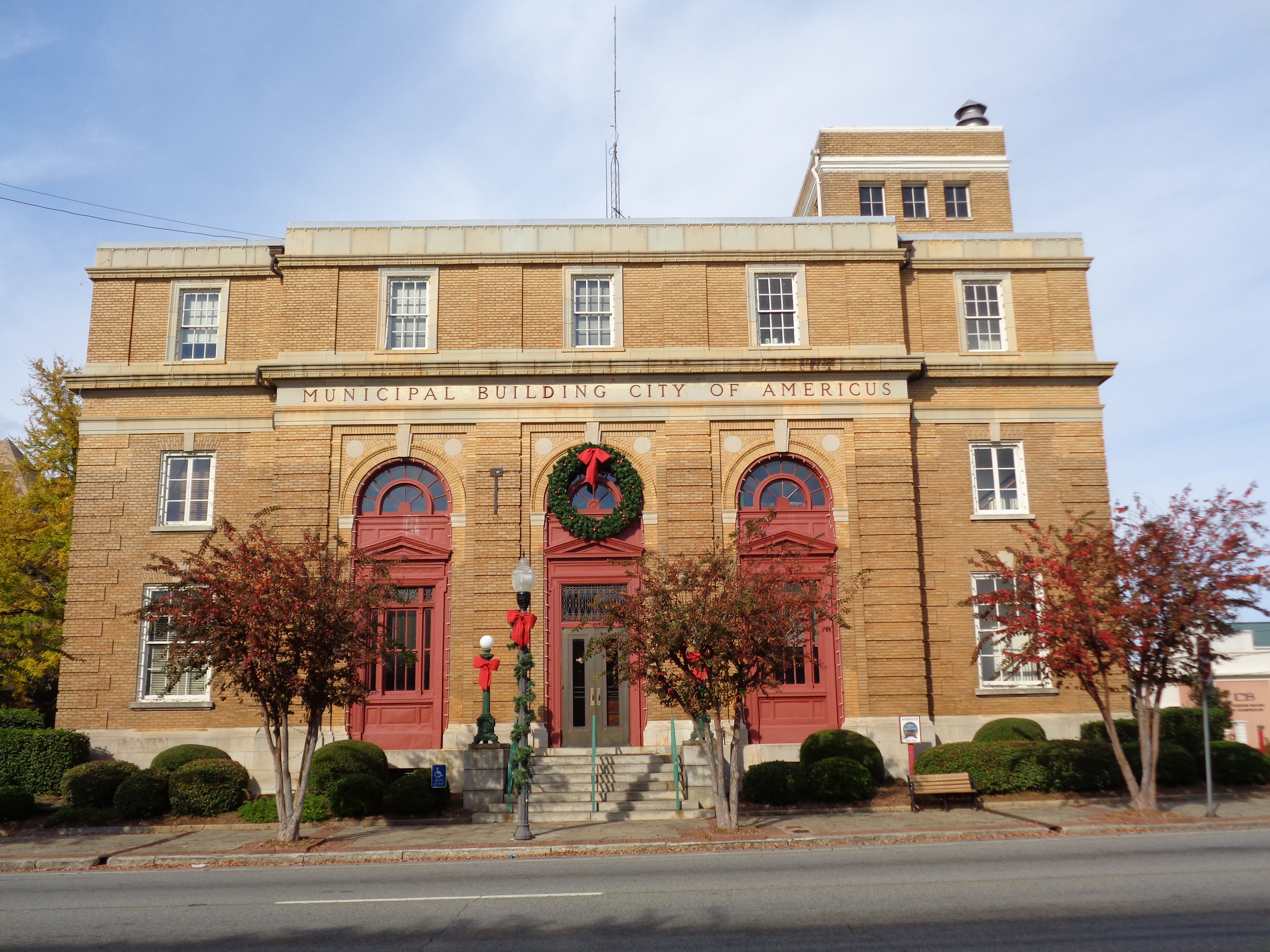 Americus, Sumter County, Georgia